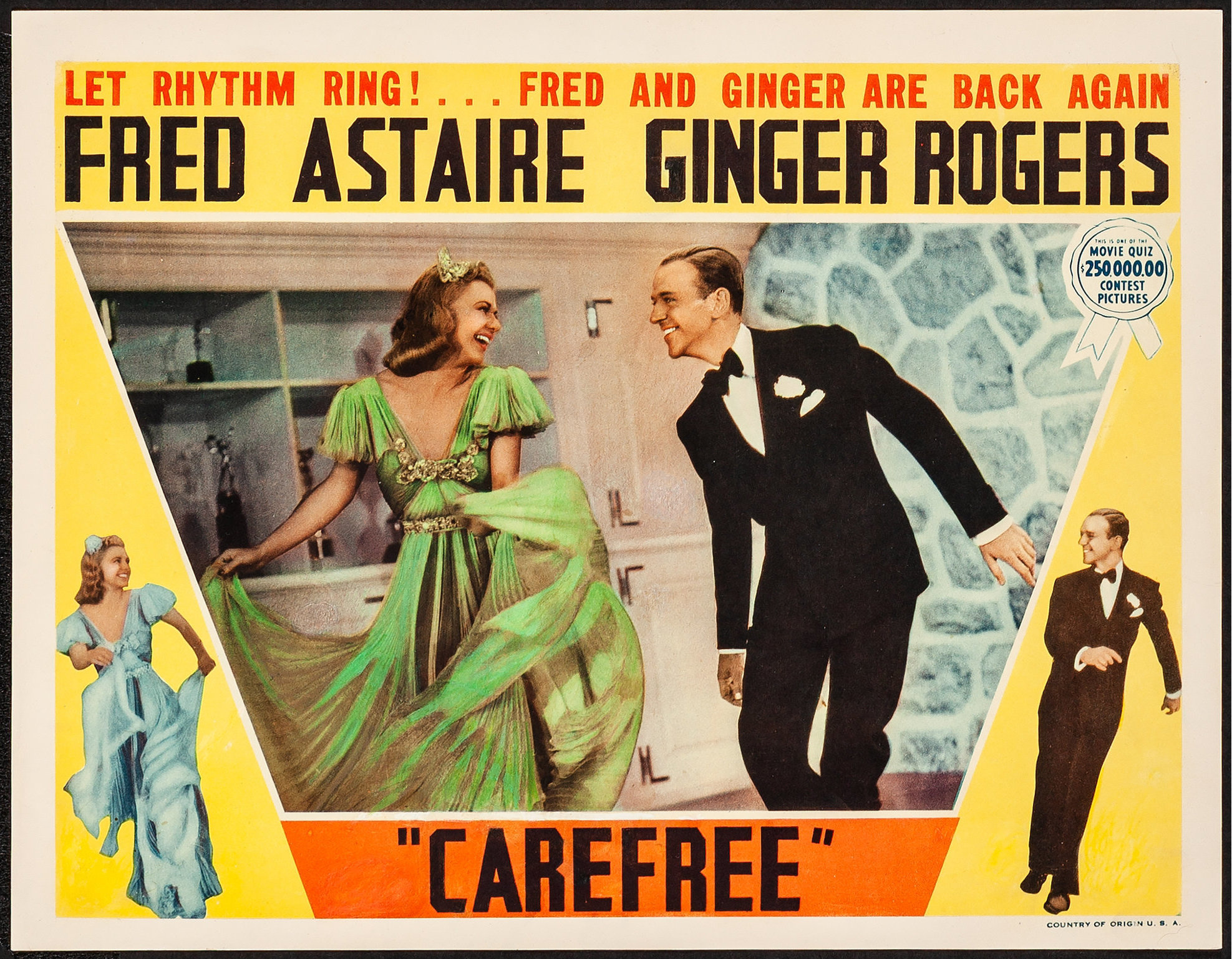 Lobby card for the American musical film Carefree (1938).